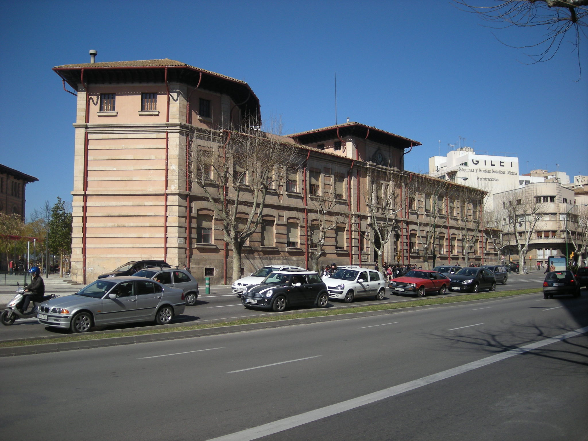 Institut Joan Alcover, in Palma.